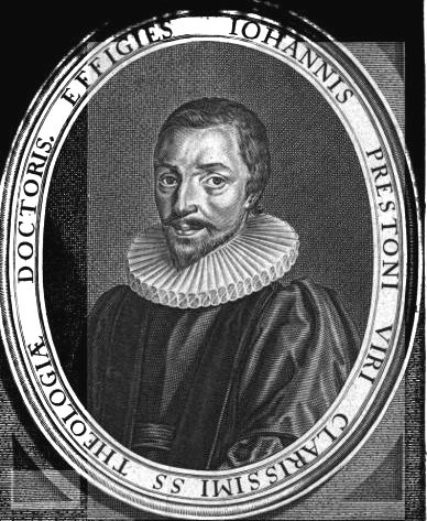 The Theologian John Preston, from the book: John Preston, The breast-plate of faith and love. [2 pt. The title-page of the 'Treatise of effectuall faith' is dated 1637]; Published by ... 1651.